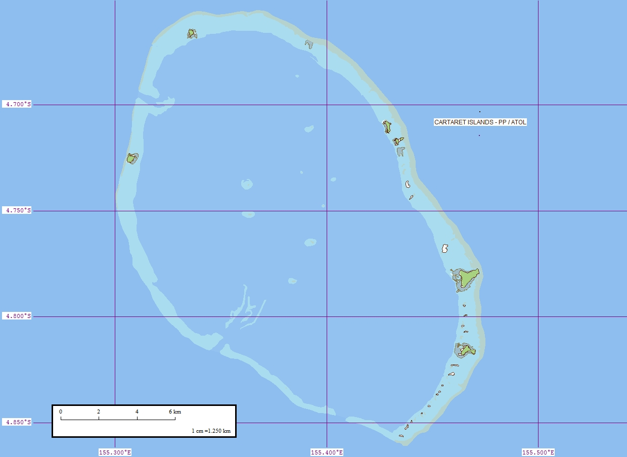 Map of Carteret Atoll (also known as Kilinailau or Tulun Islands), Papua New Guinea